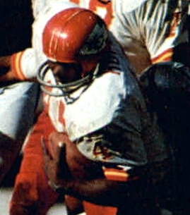 Kansas City Chiefs running back Robert Holmes rushes the ball against the Oakland Raiders in the 1969 AFL Championship Game.